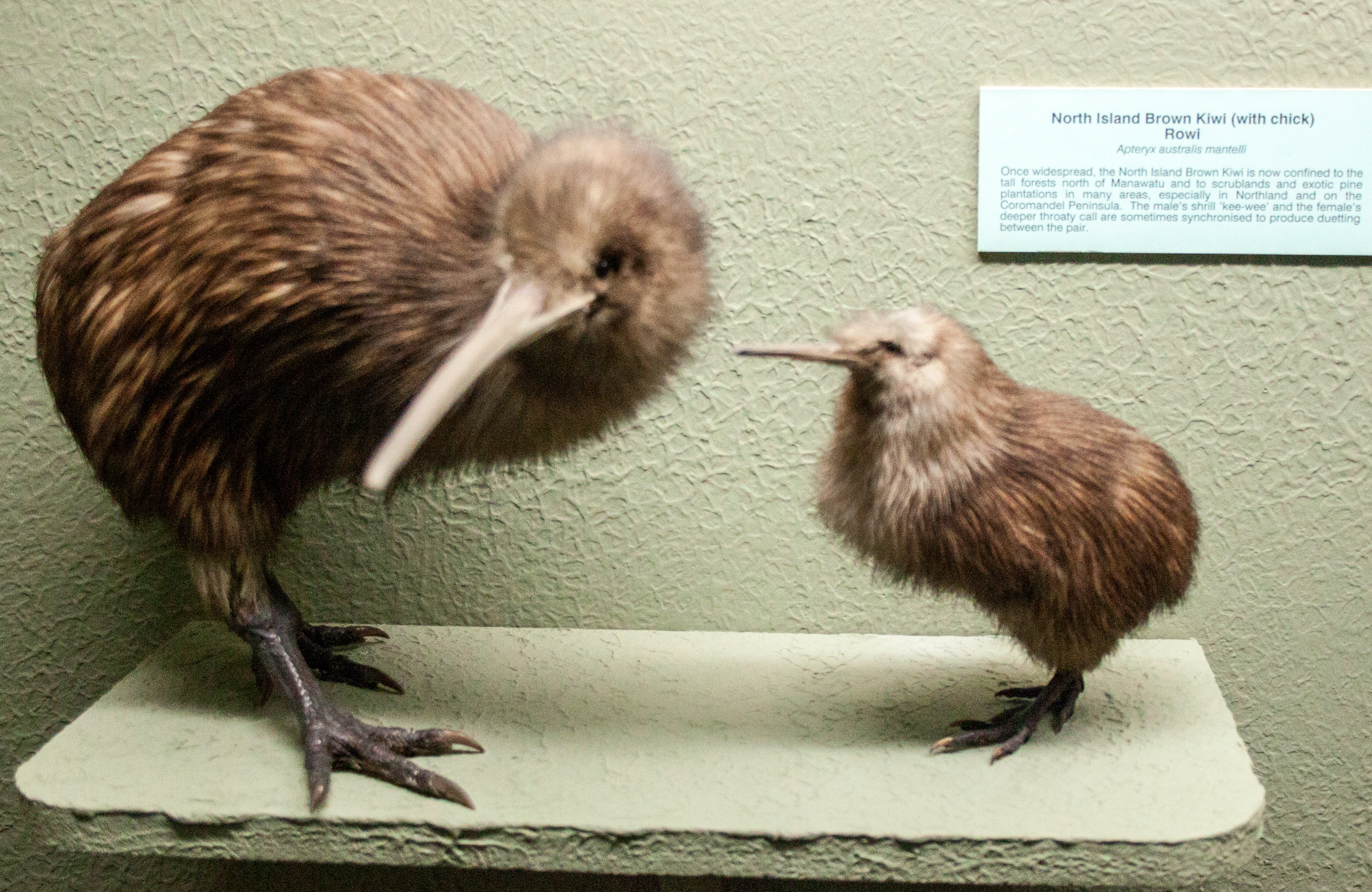 North Island Brown Kiwi